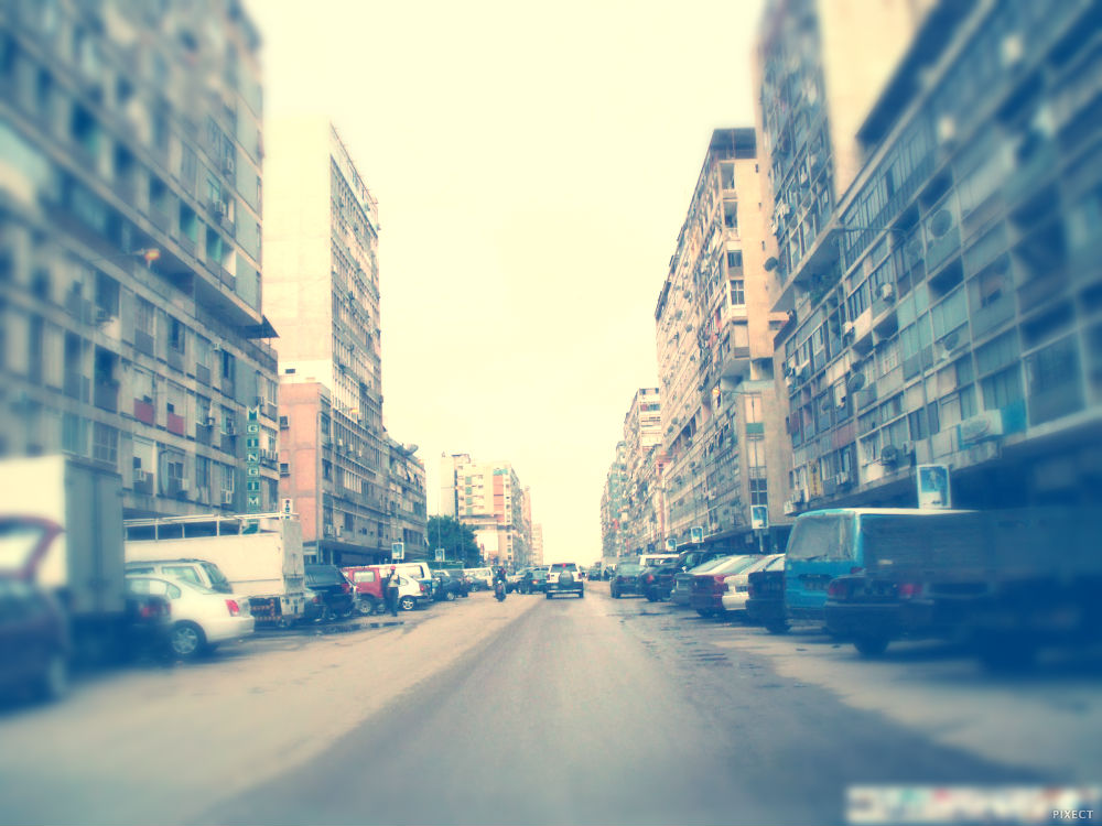 Avenida Comandante Valòdia in 2005